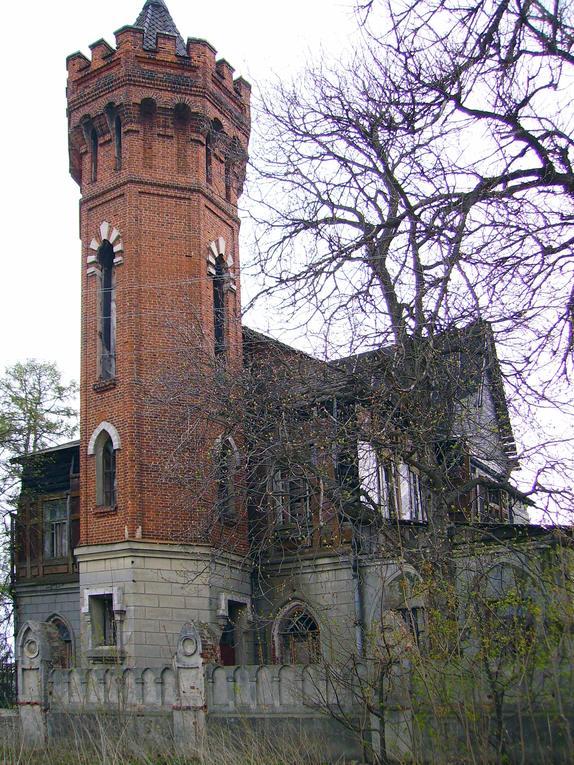 Tower of Senkov Mansion